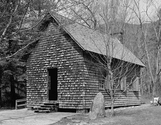 Biltmore Forestry School, Schoolhouse, Brevard vicinity (Transylvania County, North Carolina) - cropped. Photo from the HABS—Historic American Buildings Survey images of North Carolina. This file comes from the Historic American Buildings Survey (HABS), Historic American Engineering Record (HAER) or Historic American Landscapes Survey (HALS). These are programs of the National Park Service established for the purpose of documenting historic places. Records consist of measured drawings, archival photographs, and written reports. When reusing please credit: Library of Congress, Prints & Photographs Division, NC-402-B-4 This tag does not indicate the copyright status of the attached work. A normal copyright tag is still required. See Commons:Licensing. This work is in the public domain in the United States because it is a work prepared by an officer or employee of the United States Government as part of that person’s official duties under the terms of Title 17, Chapter 1, Section 105 of the US Code. Note: This only applies to original works of the Federal Government and not to the work of any individual U.S. state, territory, commonwealth, county, municipality, or any other subdivision. This template also does not apply to postage stamp designs published by the United States Postal Service since 1978. (See § 313.6(C)(1) of Compendium of U.S. Copyright Office Practices). It also does not apply to certain US coins; see The US Mint Terms of Use. This file has been identified as being free of known restrictions under copyright law, including all related and neighboring rights.